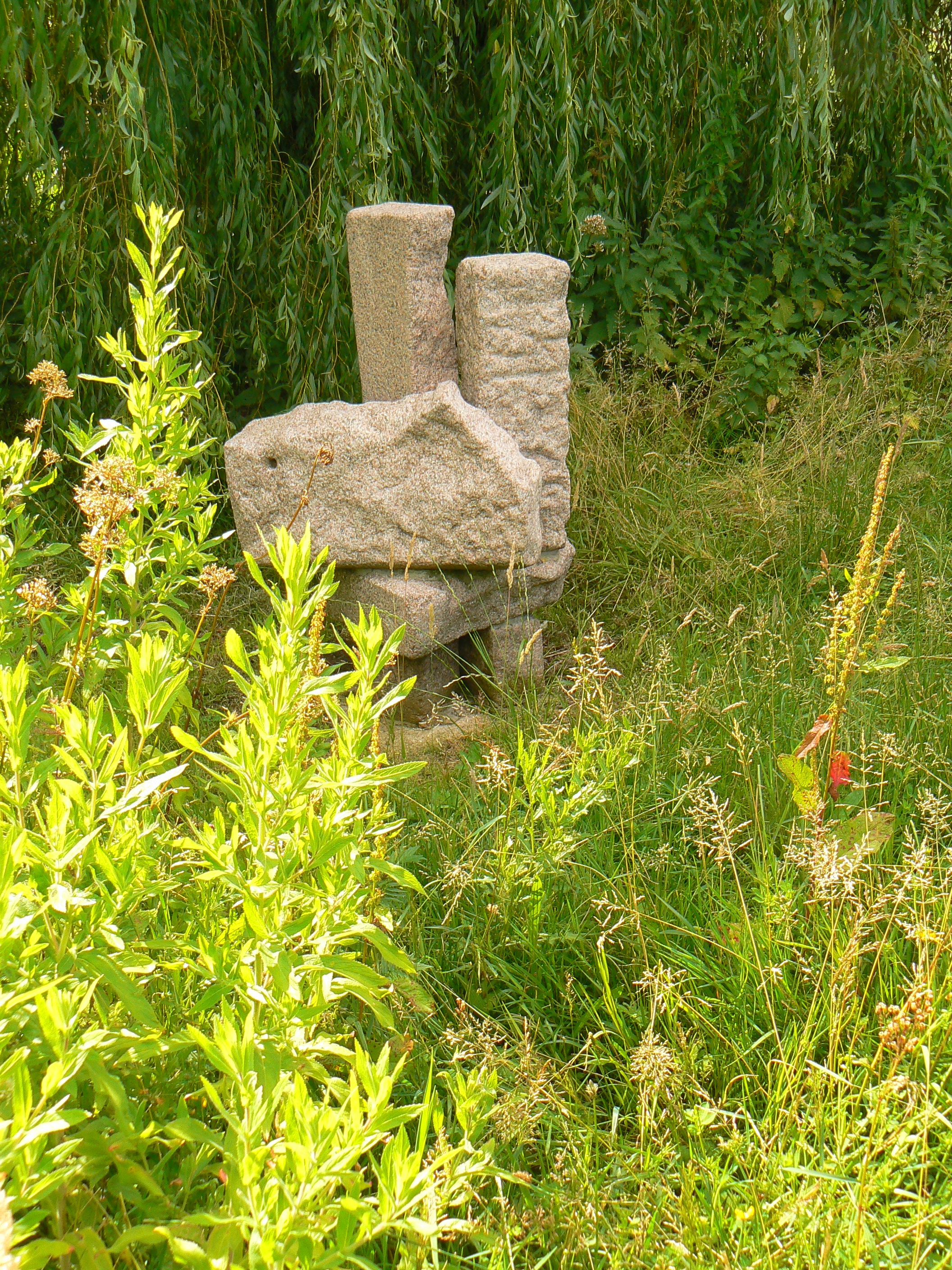 Sculpture Compositie voor een tuin (1959) by Shamaï Haber, Siegerpark in Amsterdam/The Netherlands